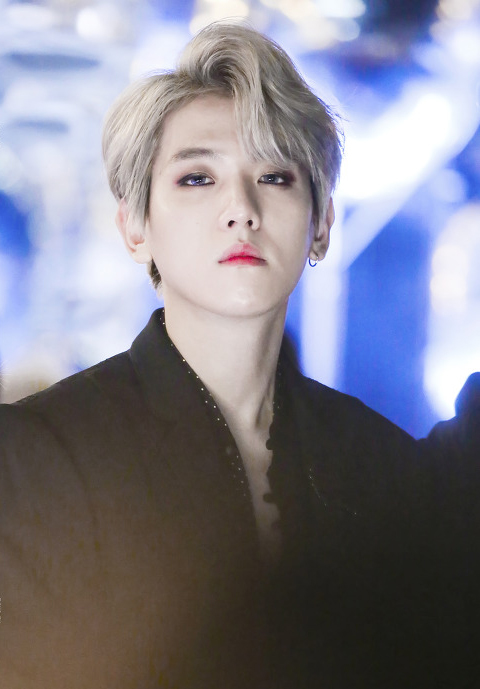 Byun Baek-hyun at Melon Music Awards on December 2, 2017.